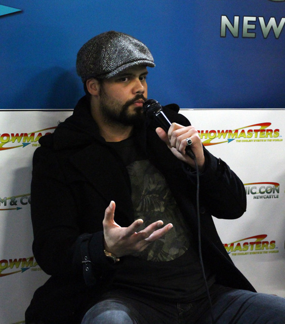 Howard Charles at Convention